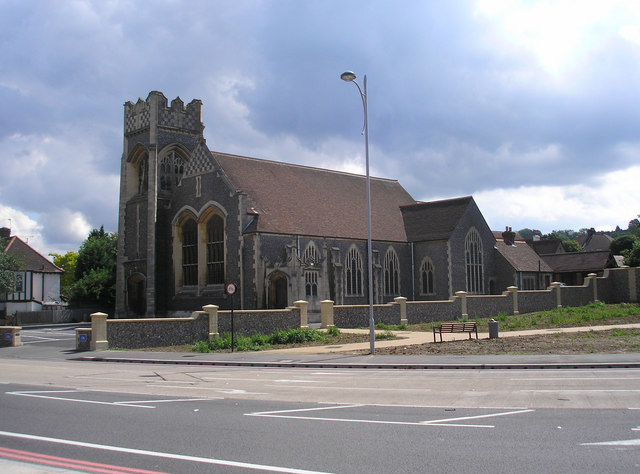 Methodist Church, Brighton Road, Coulsdon, south London (formerly Surrey) seen from the west